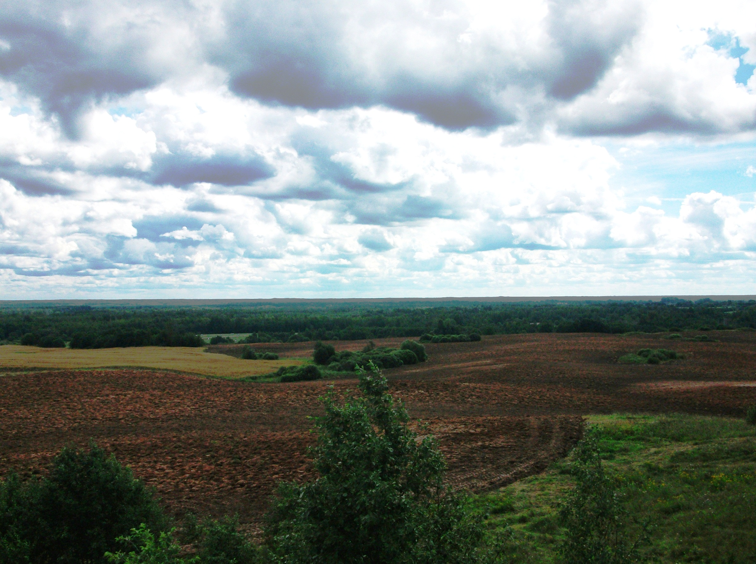 Southward view from the highest point of Vierchniadzvinsk district, Belarus